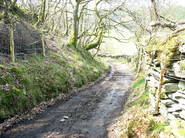 A wet section of Sarn Helen, near to Pont-y-Pant, Conwy, Wales. Even after a fortnight without any rain, this section of the Roman road has surface water which is fed in from springs.